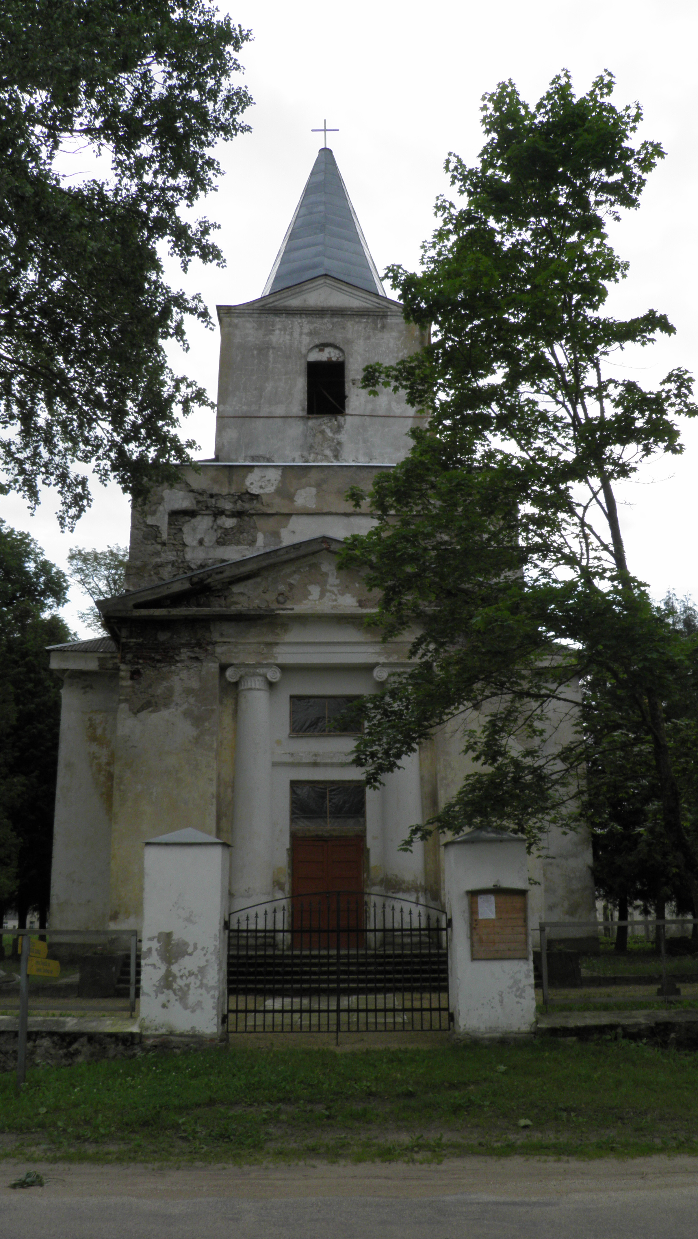 church